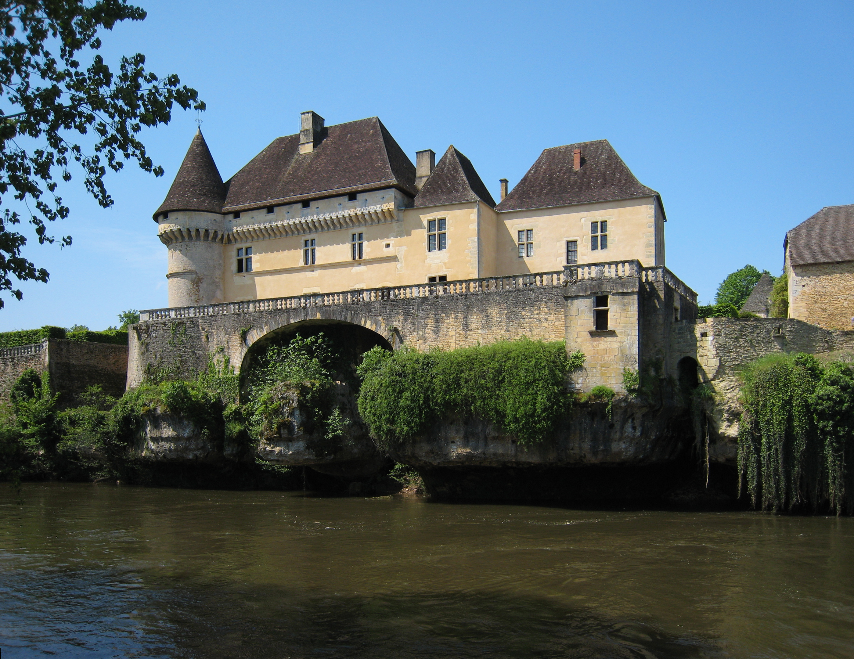 Chateau de Losse, Département Dordogne/France